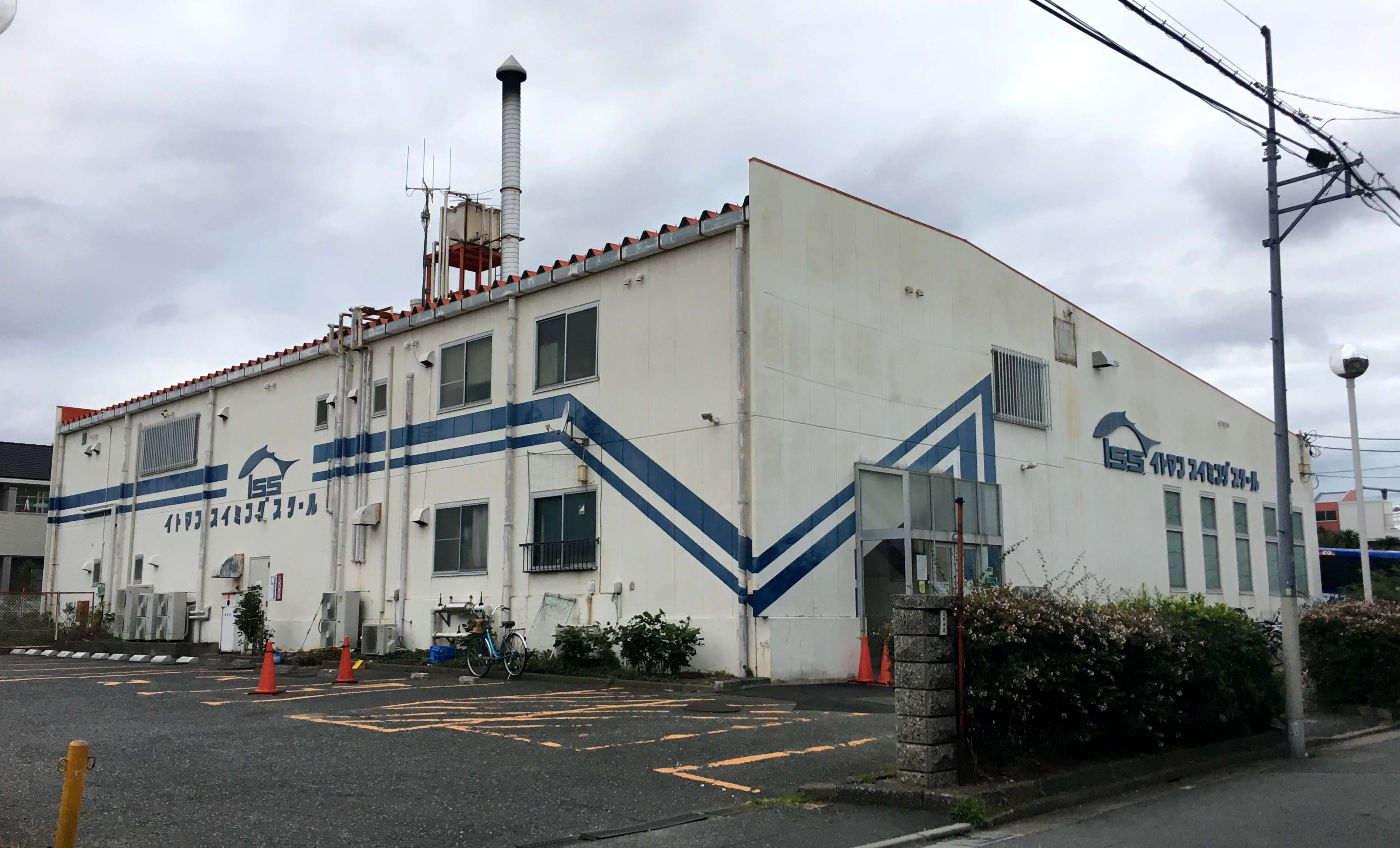 Itoman Swimming School Fujimidai branch (Tokyo, Japan)